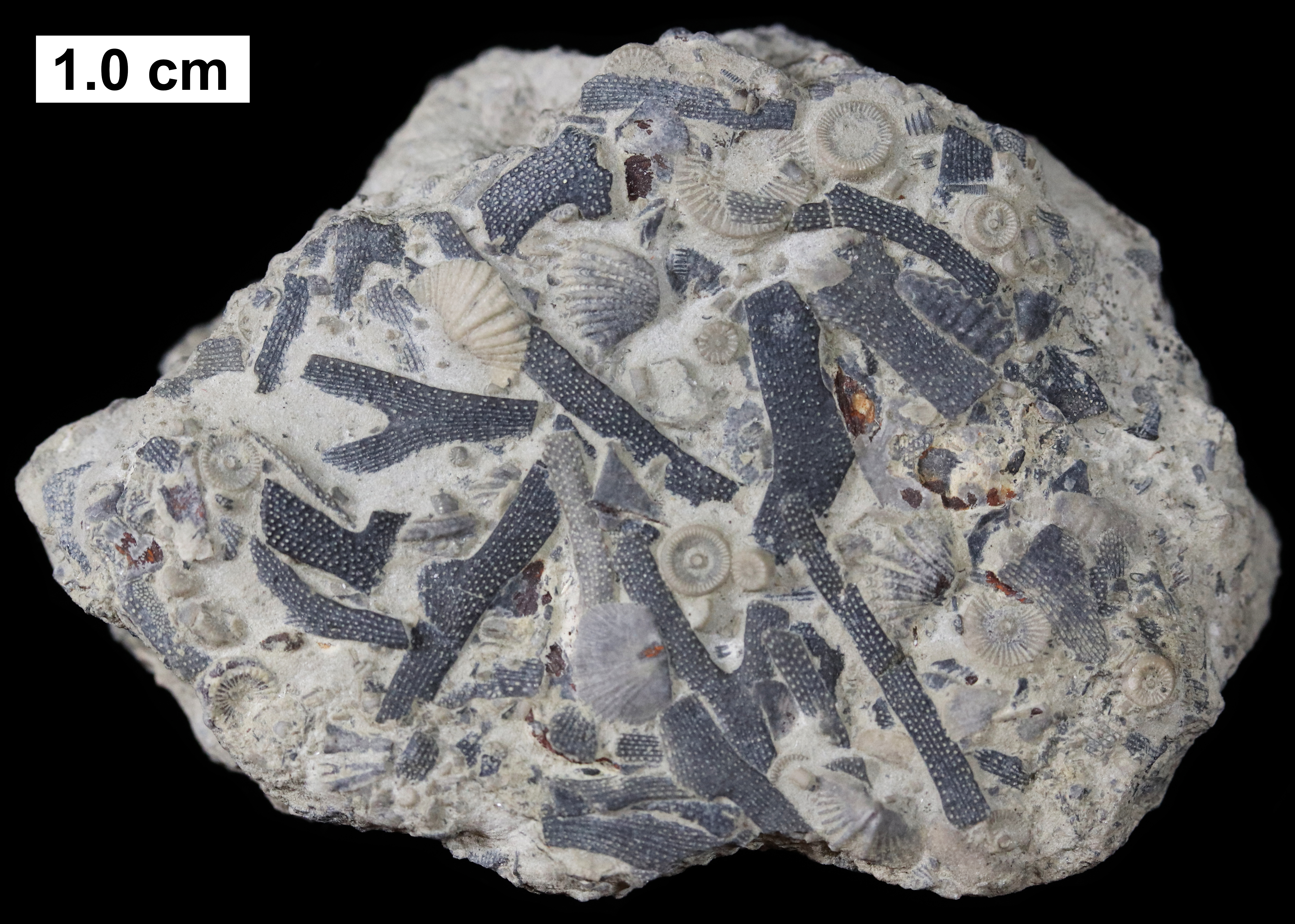 The flat, branching bryozoan Sulcoretepora; Middle Devonian; Milwaukee Formation; Lindwurm Member; Milwaukee County, Wisconsin; collected by K.C. Gass; MPM P28137; photograph originally published in K.C. Gass, J. Kluessendorf, D.G. Mikulic, and C.E. Brett, 2019. Fossils of the Milwaukee Formation: A Diverse Middle Devonian Biota from Wisconsin, USA. Siri Scientific Press, Manchester, UK.